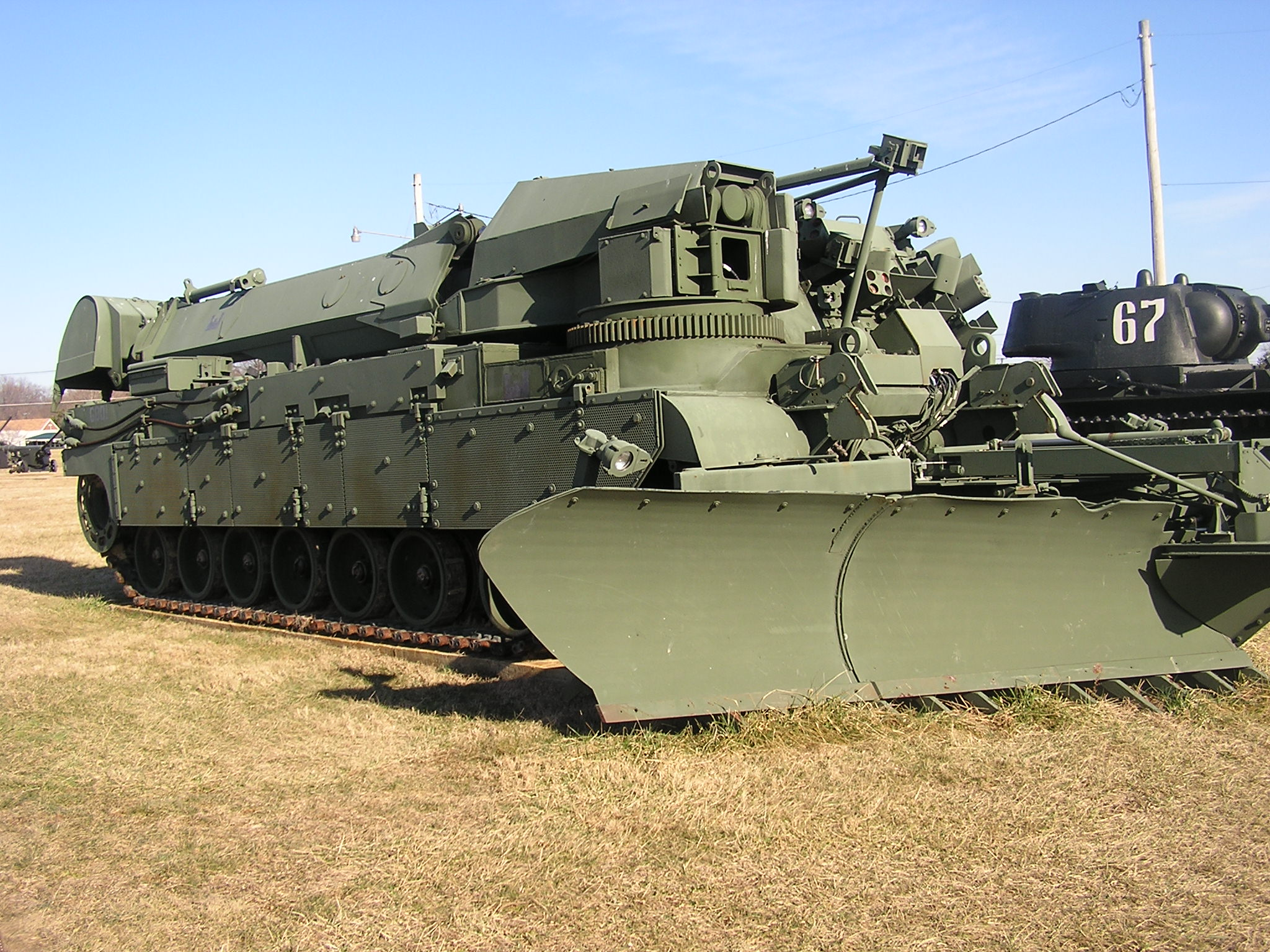 Taken at Aberdeen Proving Ground